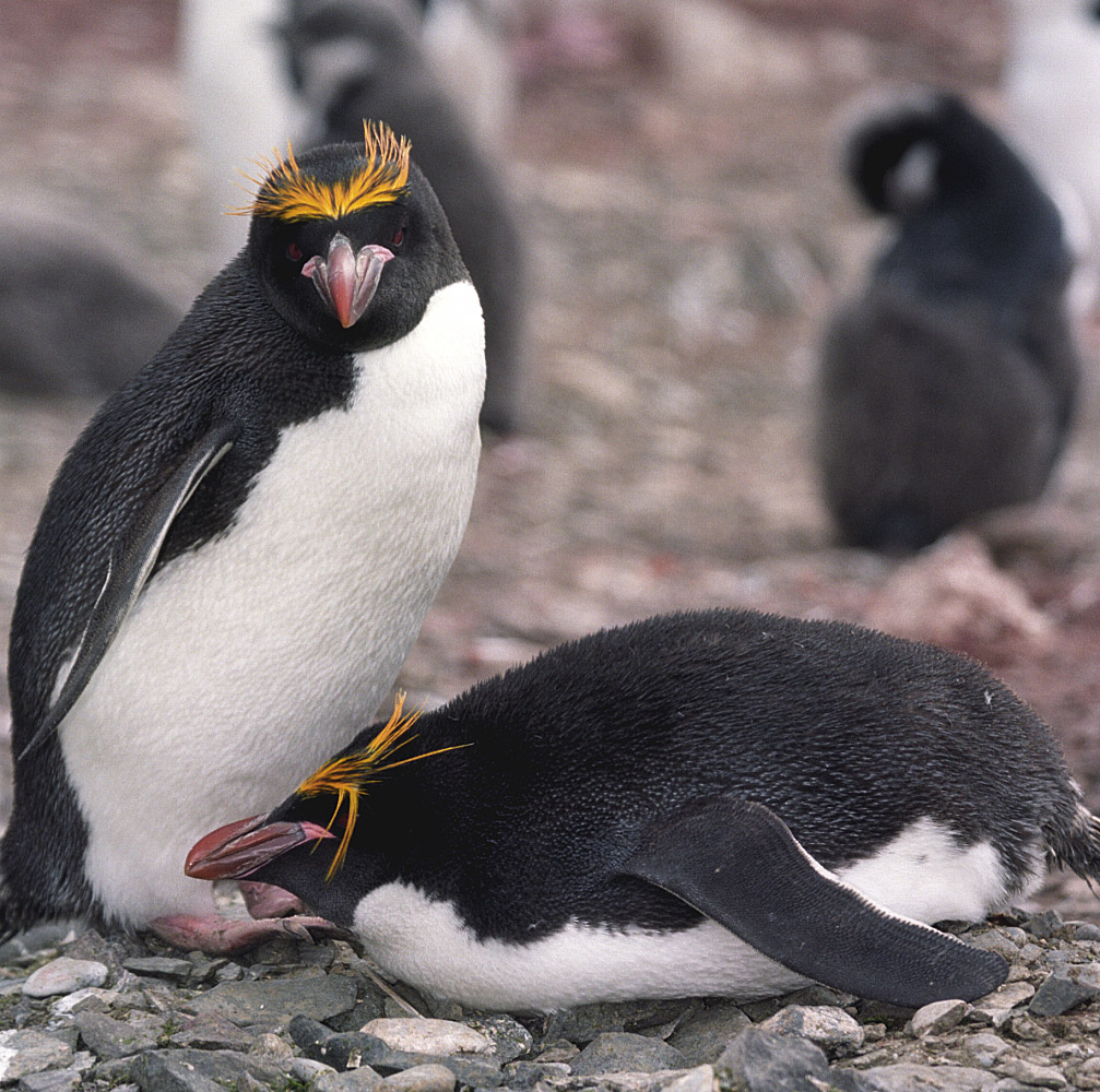 Macaroni Penguin, Hannah Point, Livingston Island: 62°39'S, 60°36'W, Antarctic Peninsula